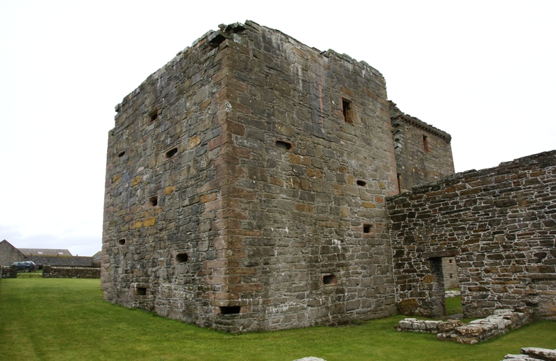 Noltland Castle, Westray, Orkney, Scotland. Southwest tower.